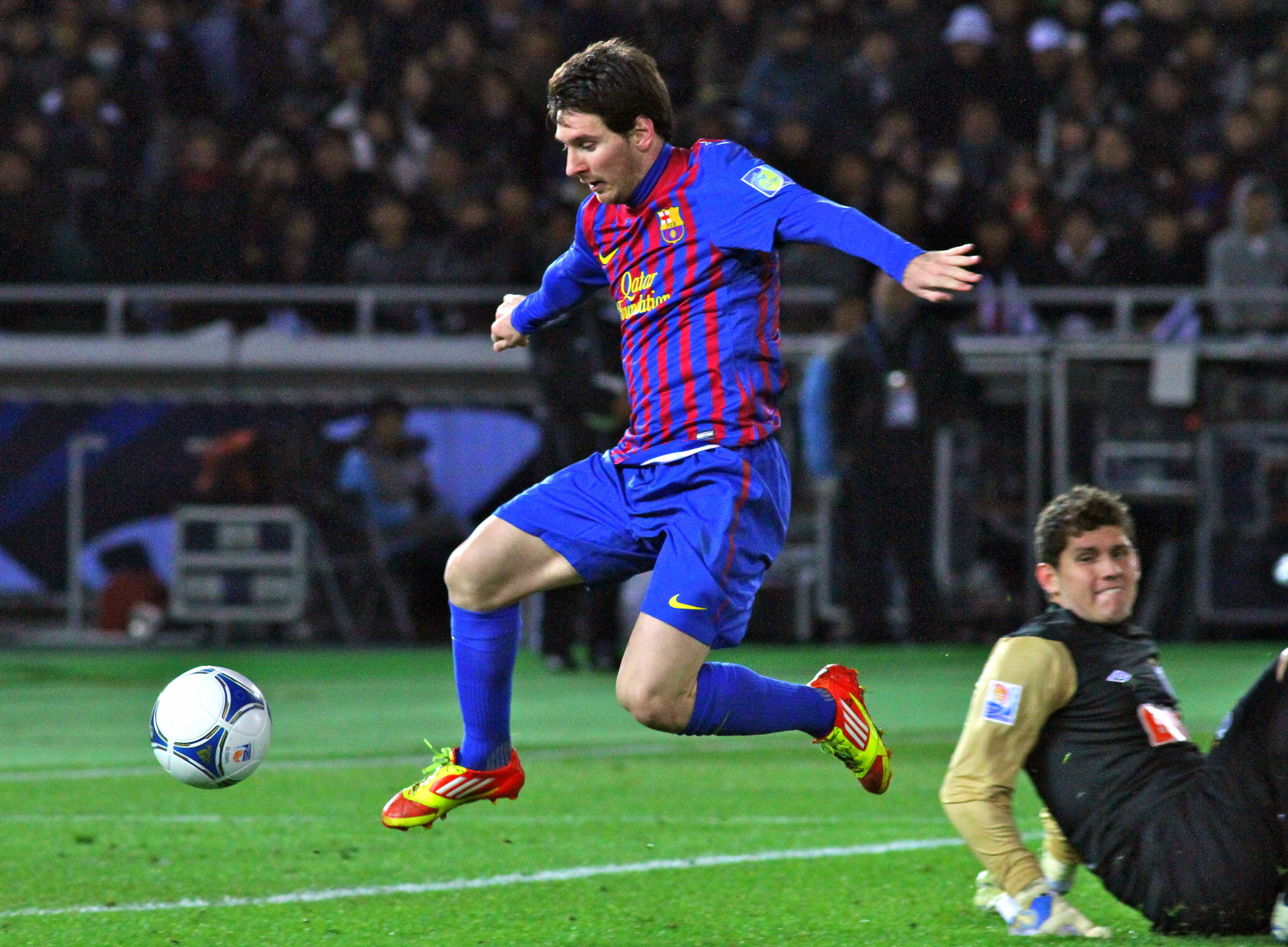 Lionel Messi - FC Barcelona, Santos best 2011.